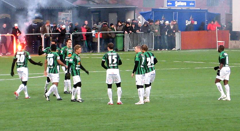 Cropped version of Image:GAIS on grass field.jpg